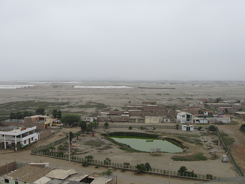 a panorama of the city